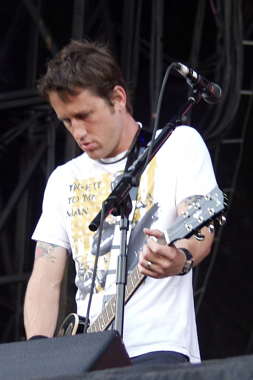 Chris Shiflett of the Foo Fighters at V2003-festival